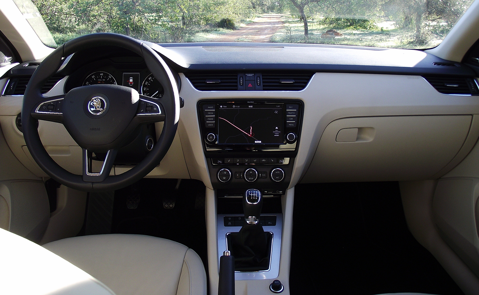 Škoda Octavia III (Typ 5E) 1.8 TSI Elegance Interior Cockpit